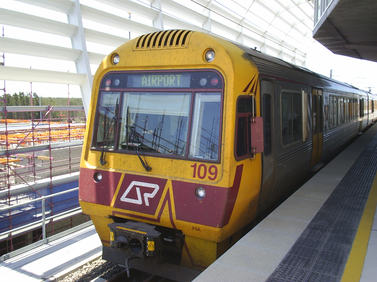 QR Interurban Multiple Unit Mk1 109 @ International Terminal station on its way to the Domestic Terminal. Taken on 01/12/06 by Qld matt 12:22, 1 December 2006 (UTC)